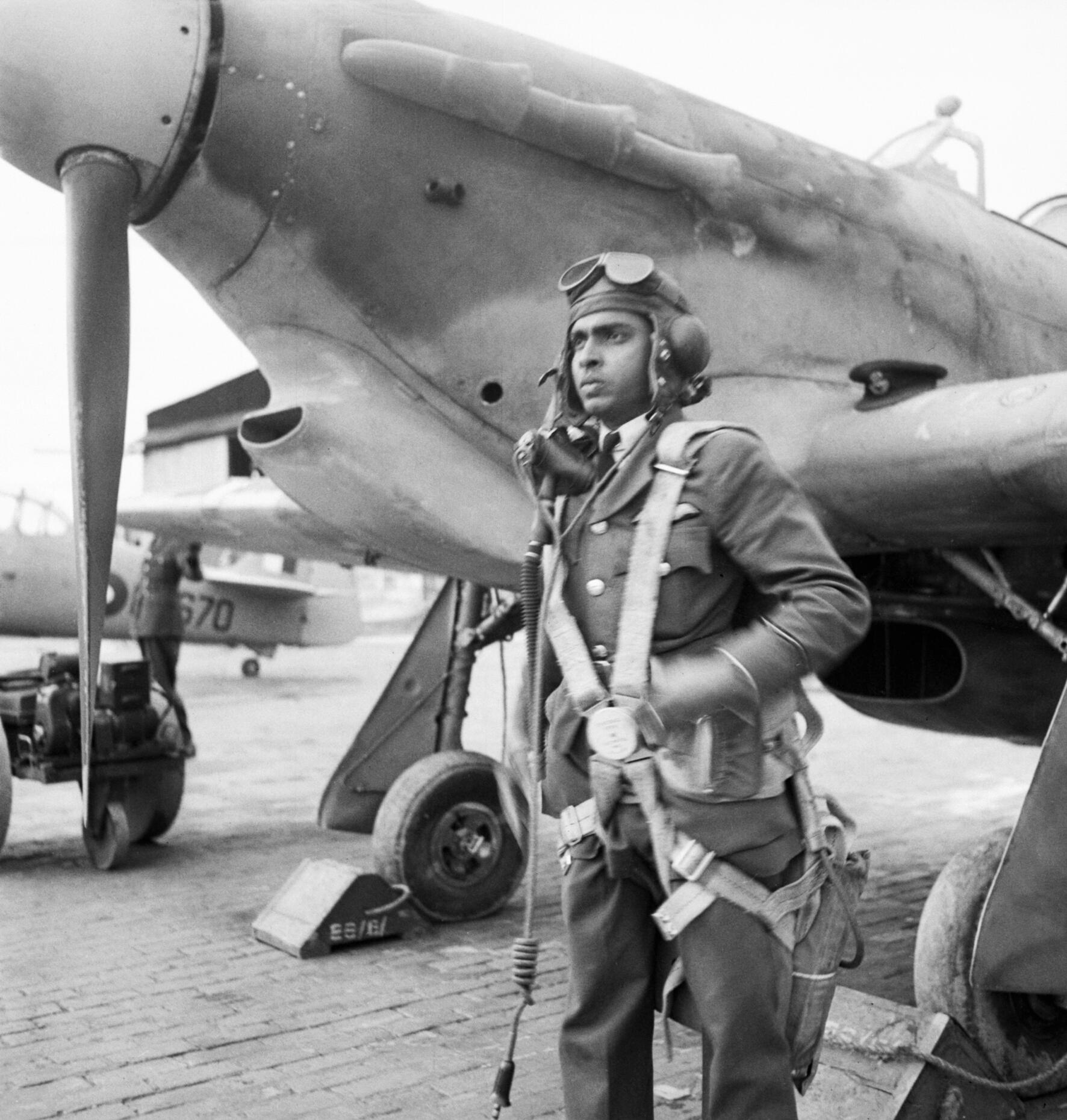 Indian Pilots Train For the Indian Air Force A student Indian IAF pilot with flying kit photographed beside his Hurricane before a training flight at a Flying Training School at Kohat, in the North West Frontier Province of India. The Commanding Officer of the station was Wing Commander Mukerjee.